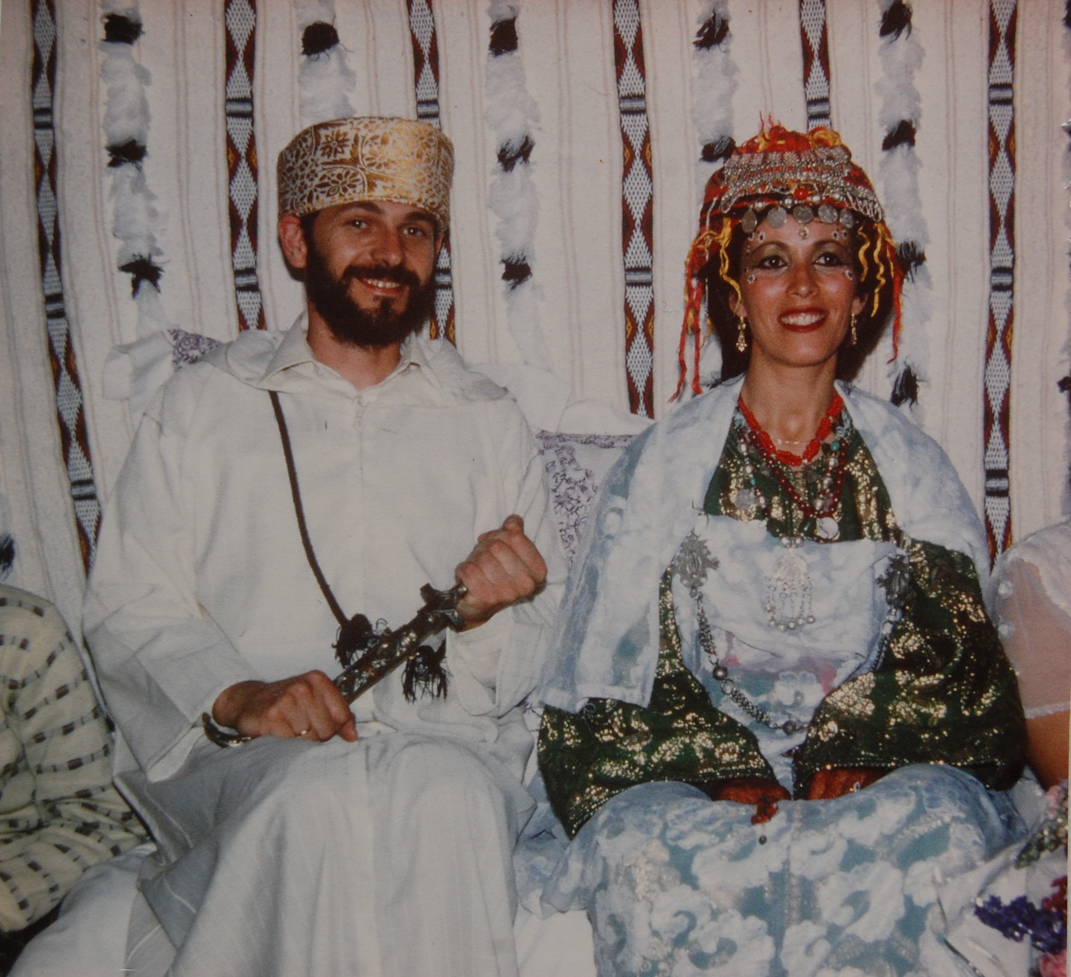 Moroccan bride and groom in traditional clothes